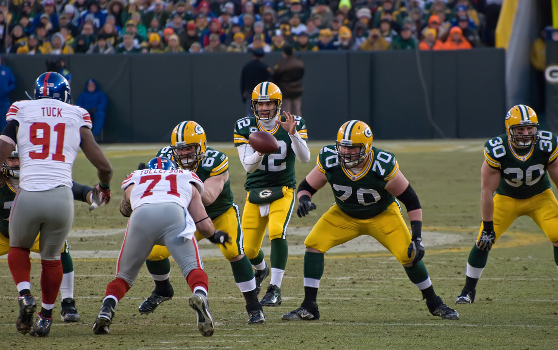 New York Giants vs. Green Bay Packers in the NFC Divisional Playoff Game at Lambeau Field on January 15, 2012. Photo by Mike Morbeck.